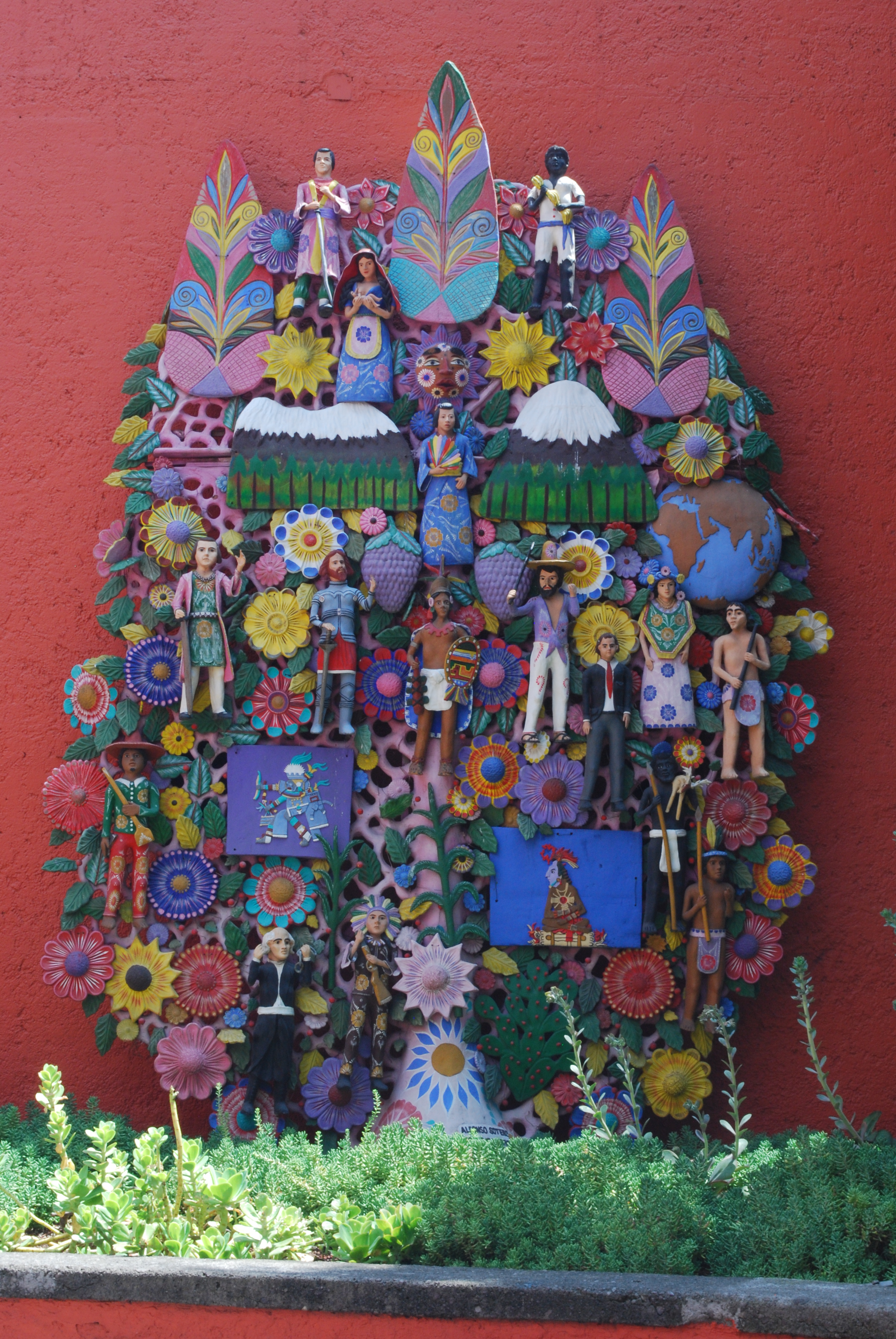 Tree of Life sculpture by the Soteno family at the Museo Nacional de Culturas Populares from the 19th century in Coyoacan, Mexico City